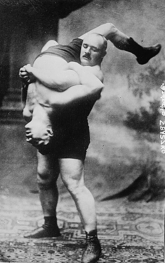 Bain News Service,, publisher. Stanislaus Zbyszko circa 1913 [between 1910 and 1915] 1 negative : glass ; 5 x 7 in. or smaller. Notes: Title from unverified data provided by the Bain News Service on the negatives or caption cards. Forms part of: George Grantham Bain Collection (Library of Congress). Format: Glass negatives. Repository: Library of Congress, Prints and Photographs Division, Washington, D.C. 20540 USA, General information about the Bain Collection is available at Persistent URL: Call Number: LC-B2- 2594-10